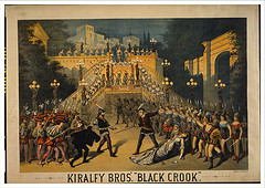 The Kiralfy Brother's famous Black Crook (1873) production.